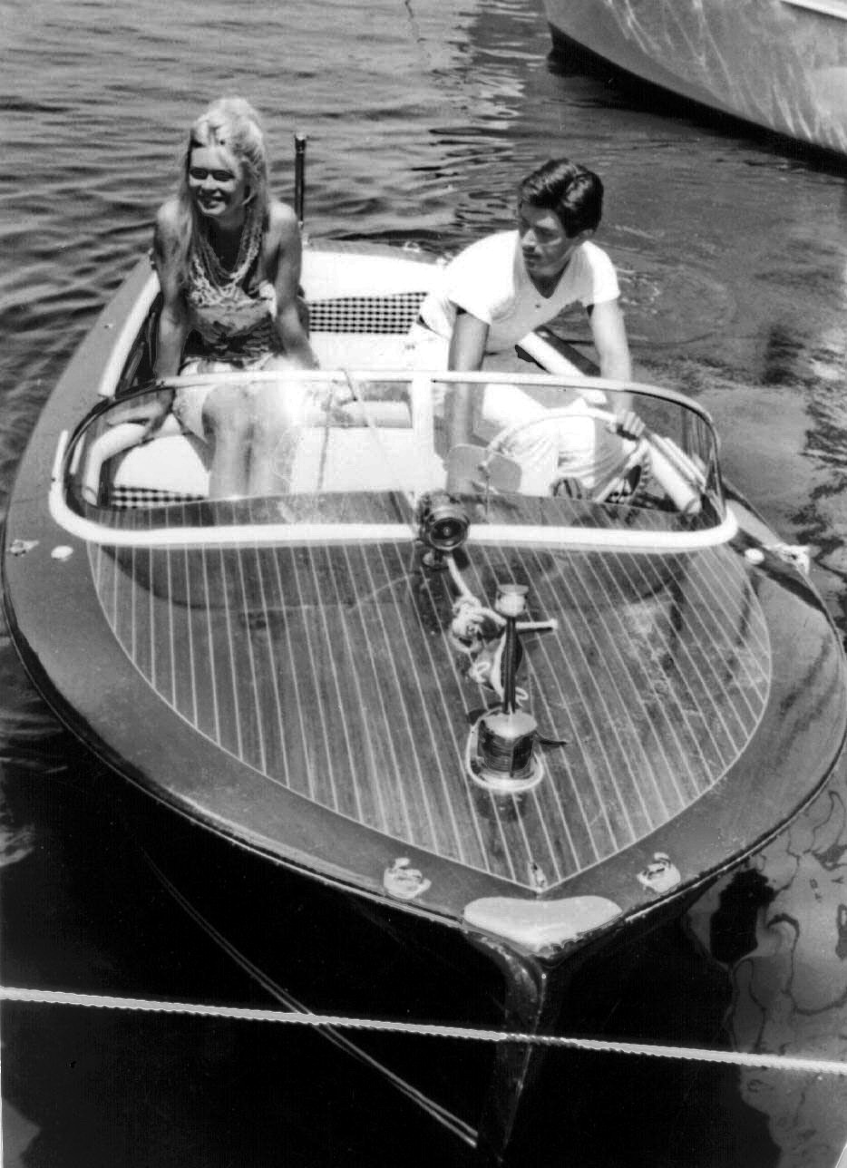 Brigitte Bardot and Sami Frey as neighbours on their Riva in the harbour of Saint-Tropez, Var, France.